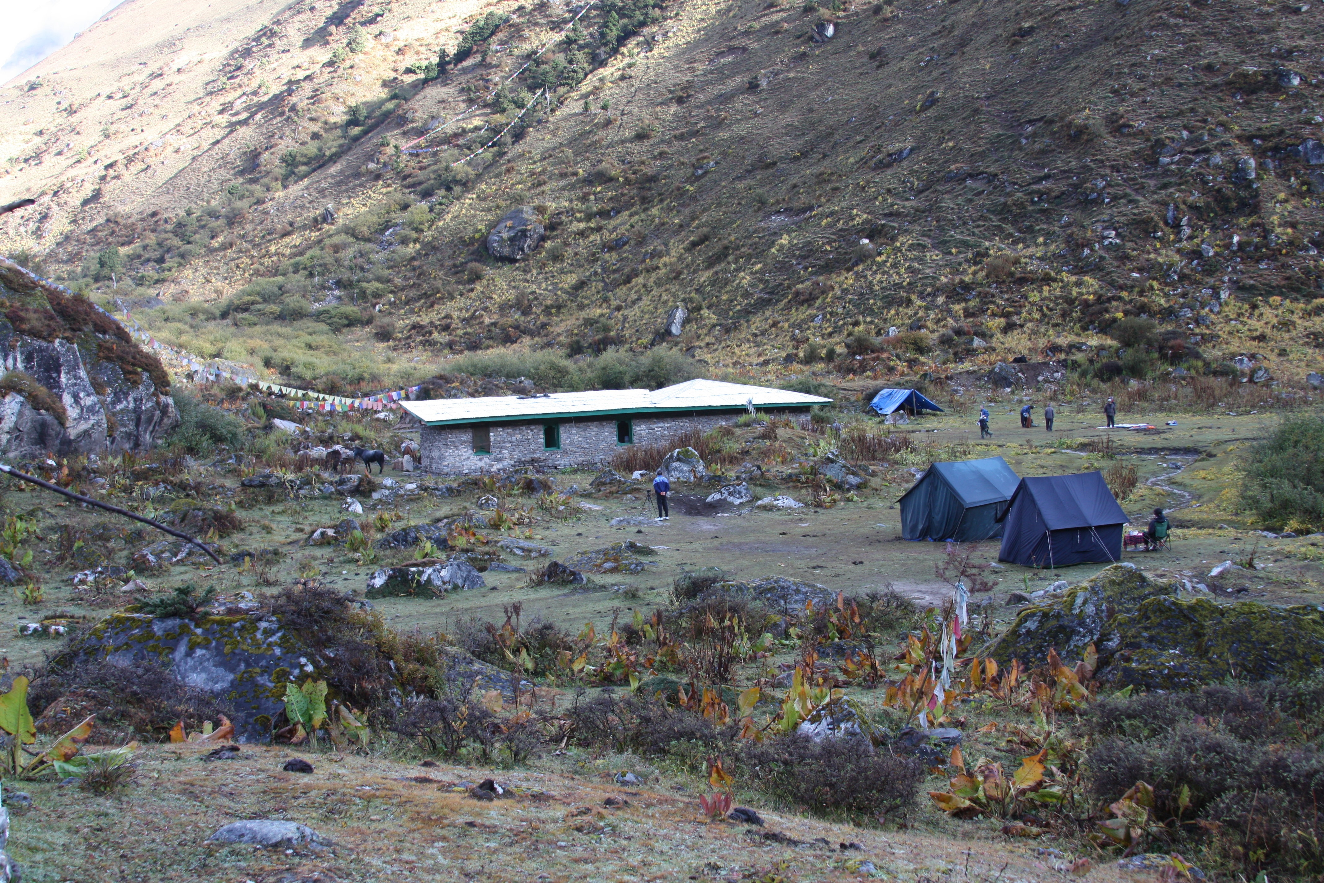 Tents, Horses an people in Bhutan